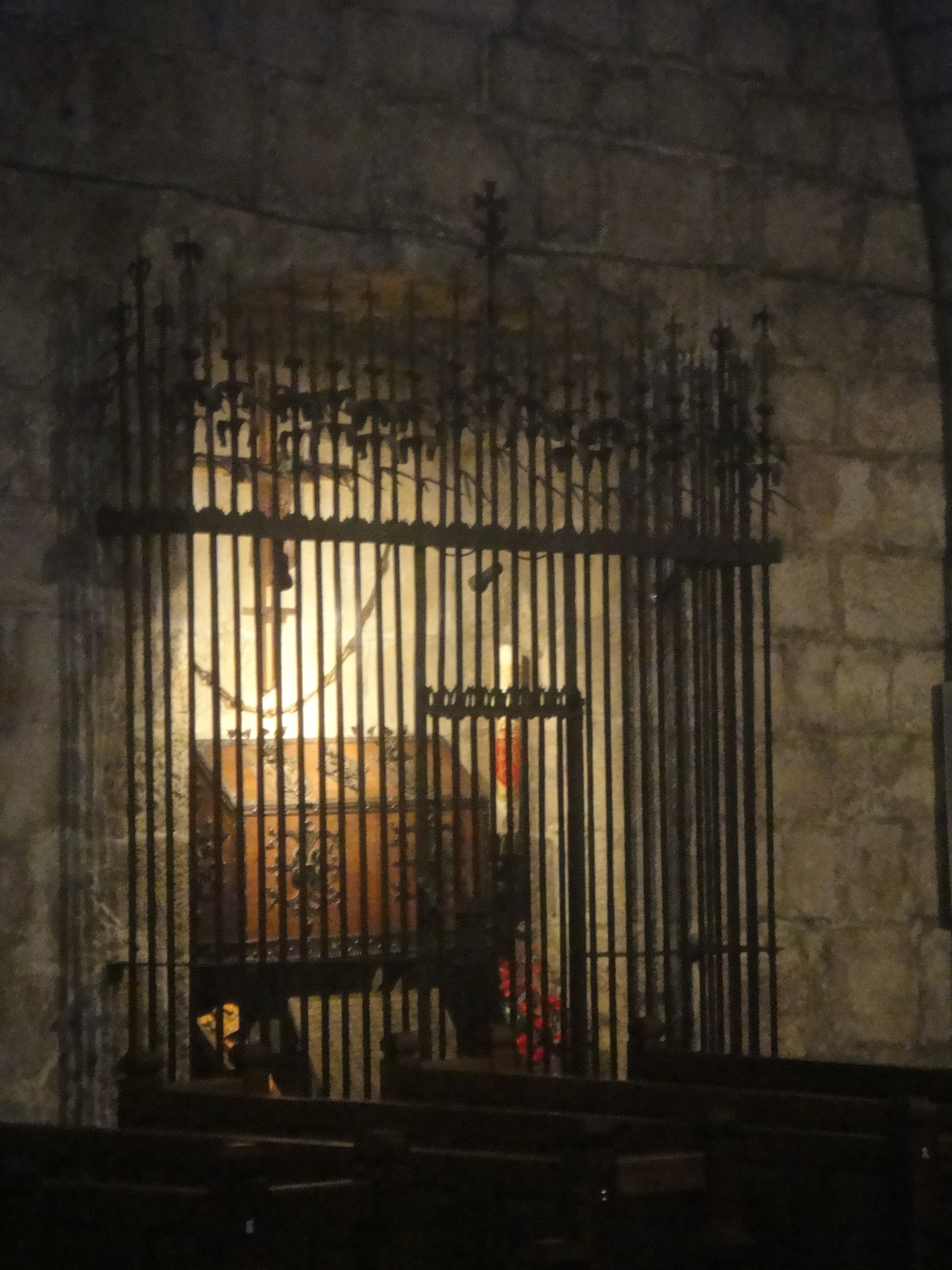 Monastery of Leyre. Navarre, Spain.